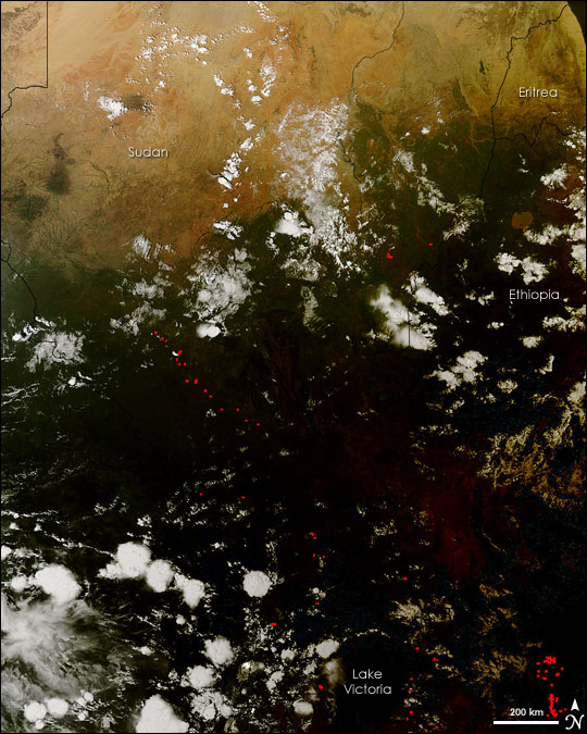 Satellite image of East Africa during the Solar eclipse of 2005 October 3. Red dots show where fires were burning in vegetated areas.